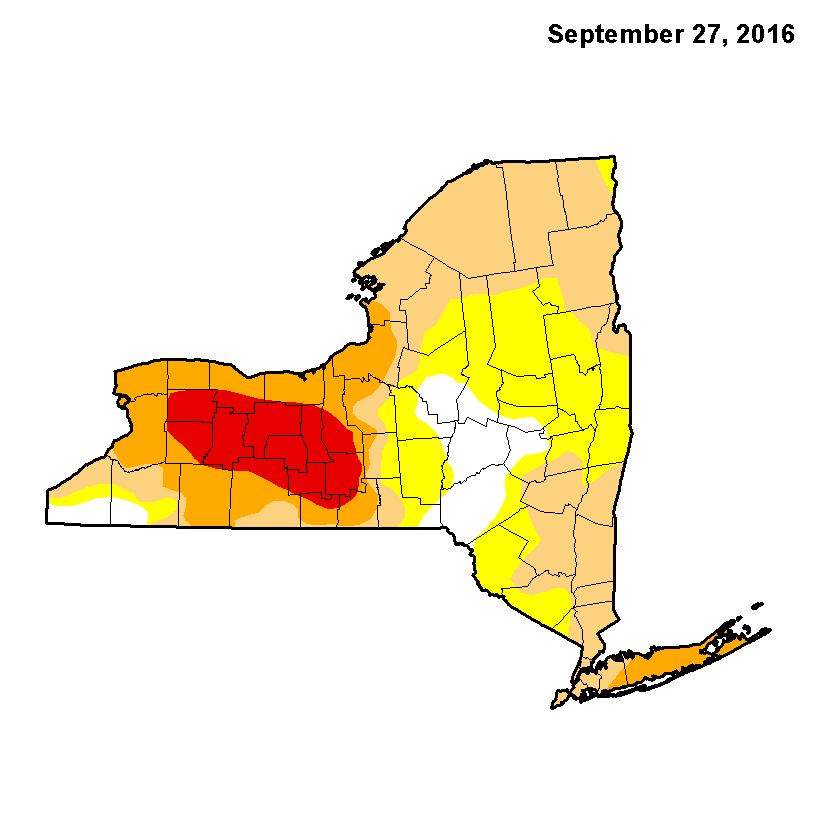 US Drought Monitor map image update for New York State during en:2016 New York drought.